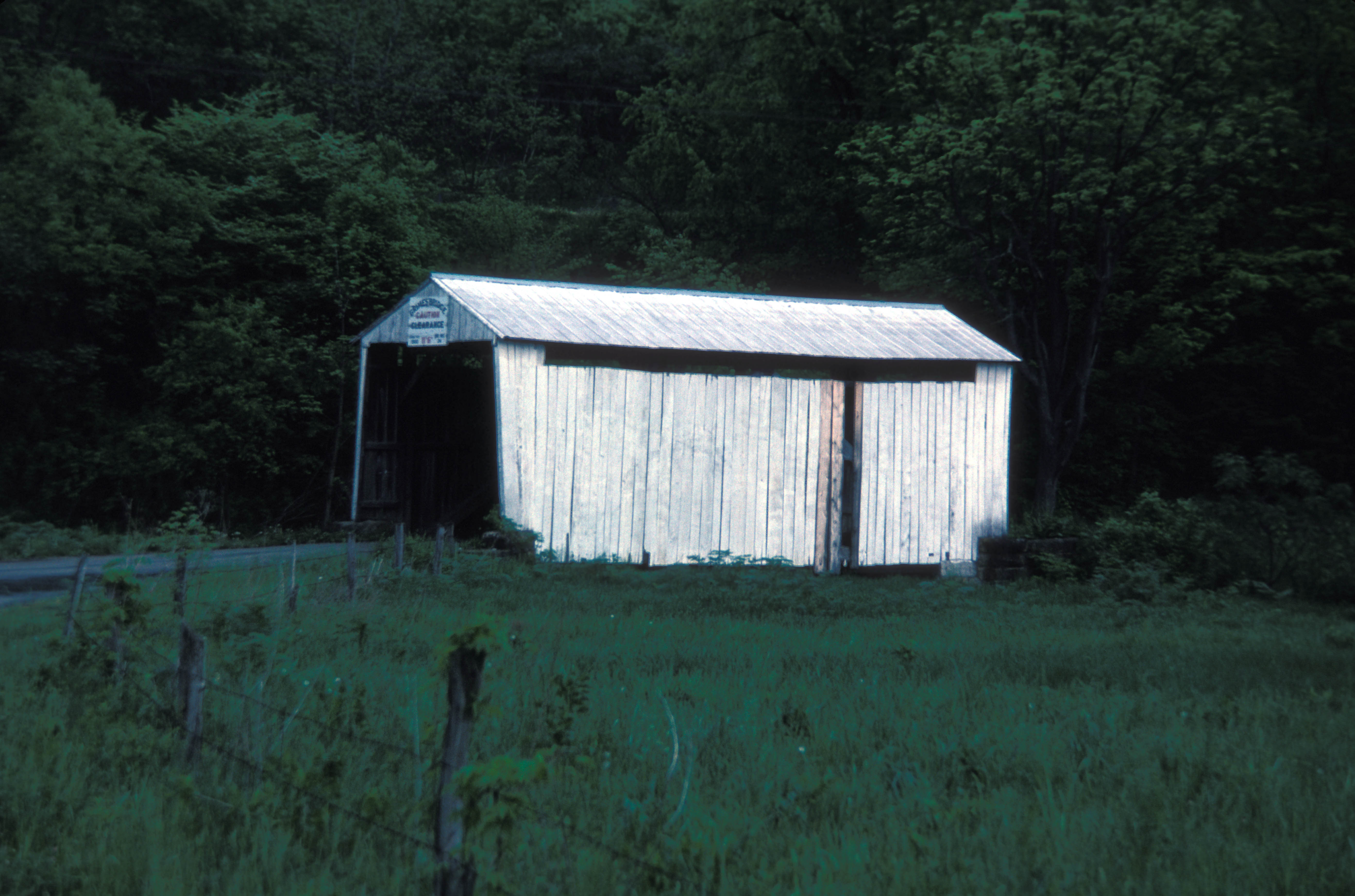 Grimes Covered Bridge was a historic wooden covered bridge in Washington Township, Greene County, Pennsylvania. OVER RUFF CREEK; 1888 KING; 44’